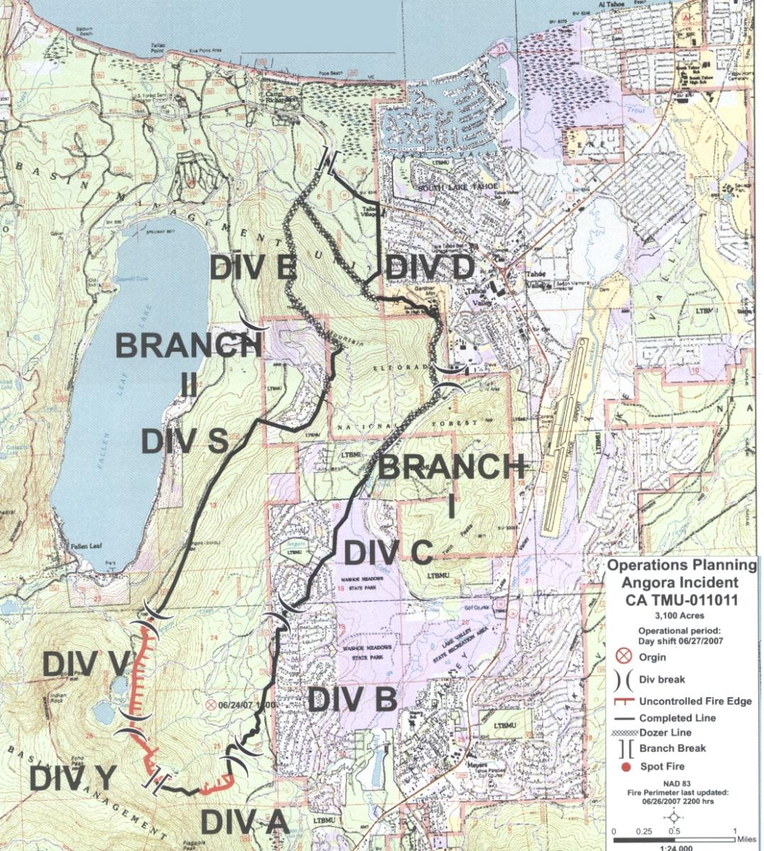 Lake Tahoe Basin Management of U.S. Forest Service